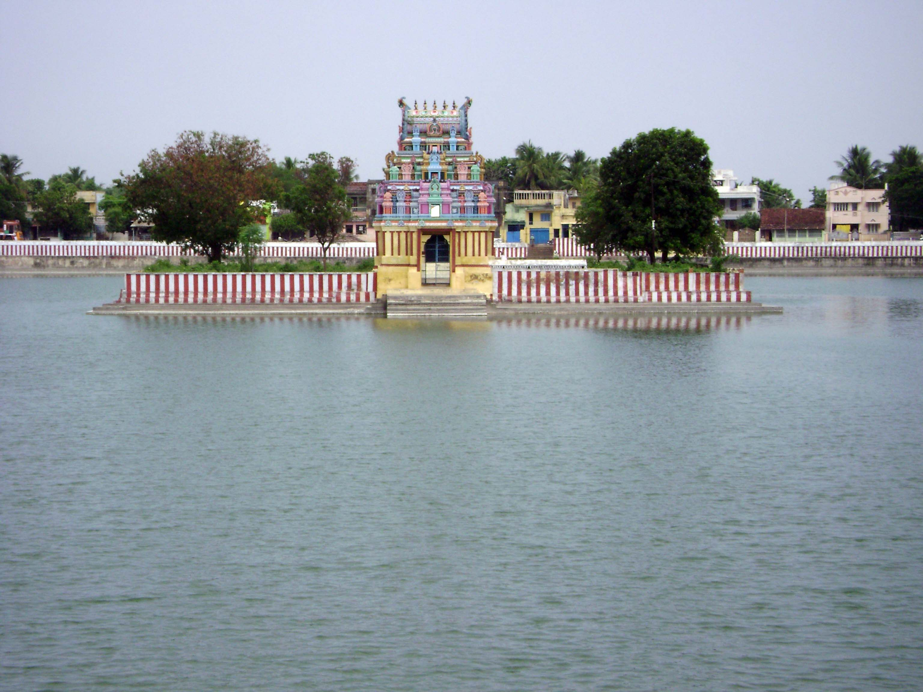 Haridra Nadhi, Mannargudi